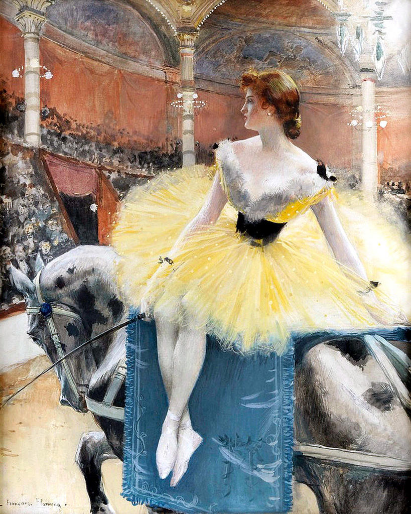 Equestrienne au Cirque Fernando